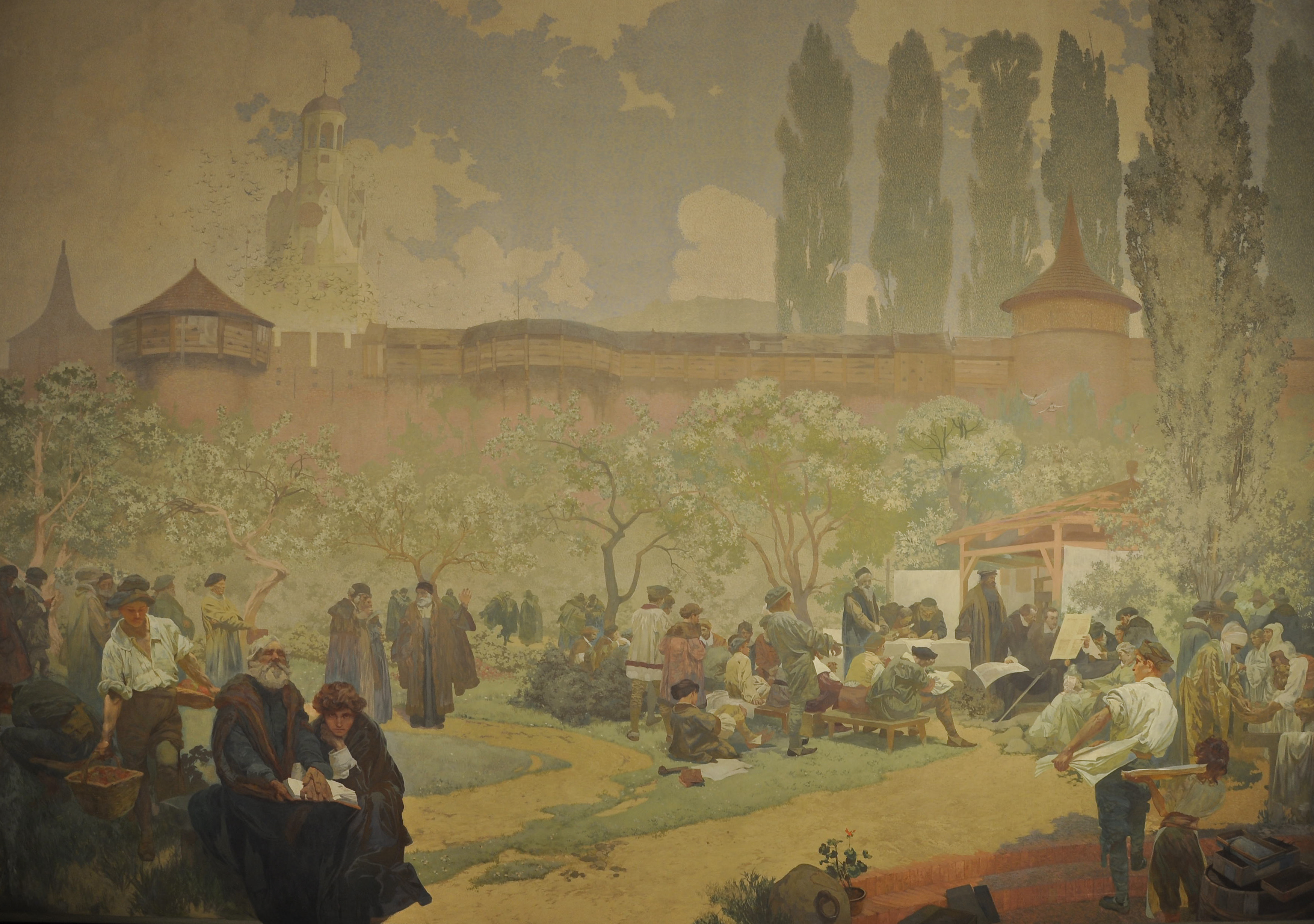 The Brethren School in Ivančice